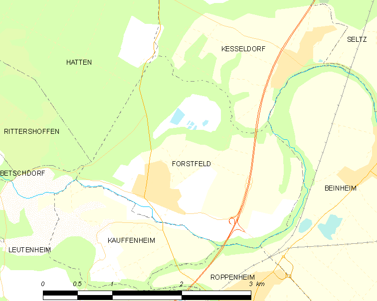 Map of French municipality